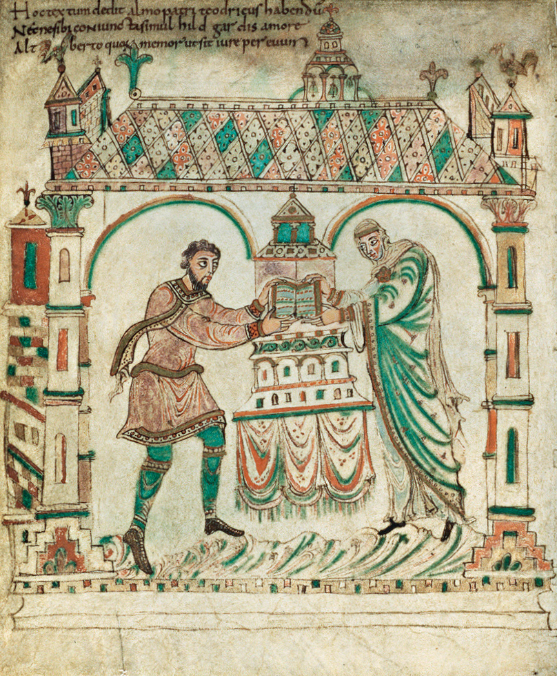 Evangeliarum van Egmond/ Egmond Gospels. Fol. 214v. Miniature with Count Thierry II and his wife Hildegard of Flanders presenting the codex to the Egmond Abbey.